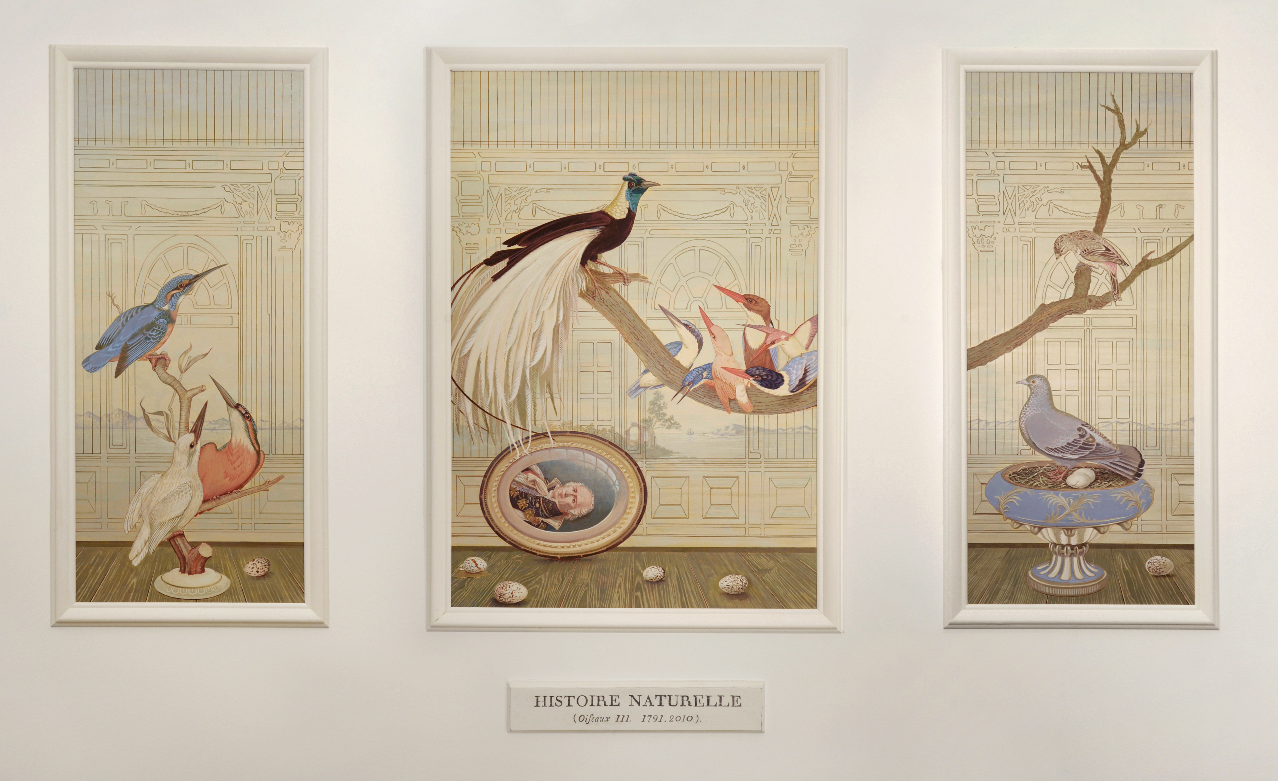 Histoire Naturelle 1810 - Painting in the entrance of Herengracht 40 in Amsterdam with the portrait of Charles François LeBrun, Napoleons Gouverneur to the Netherlands. Peter Korver 2011 (Photo; Eddy Wenting)